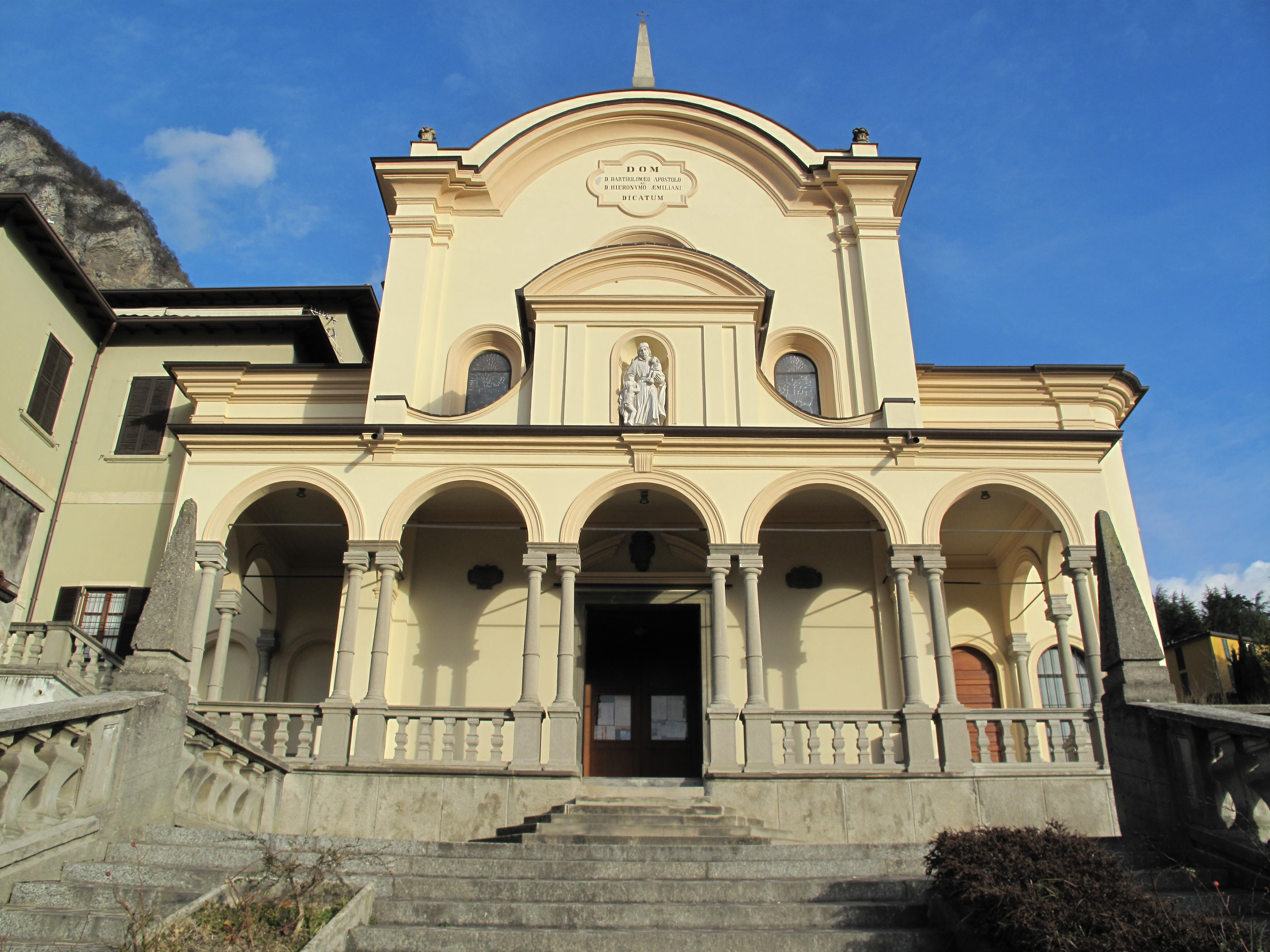 Sanctuary of Somasca di Vercurago (LC) Italy